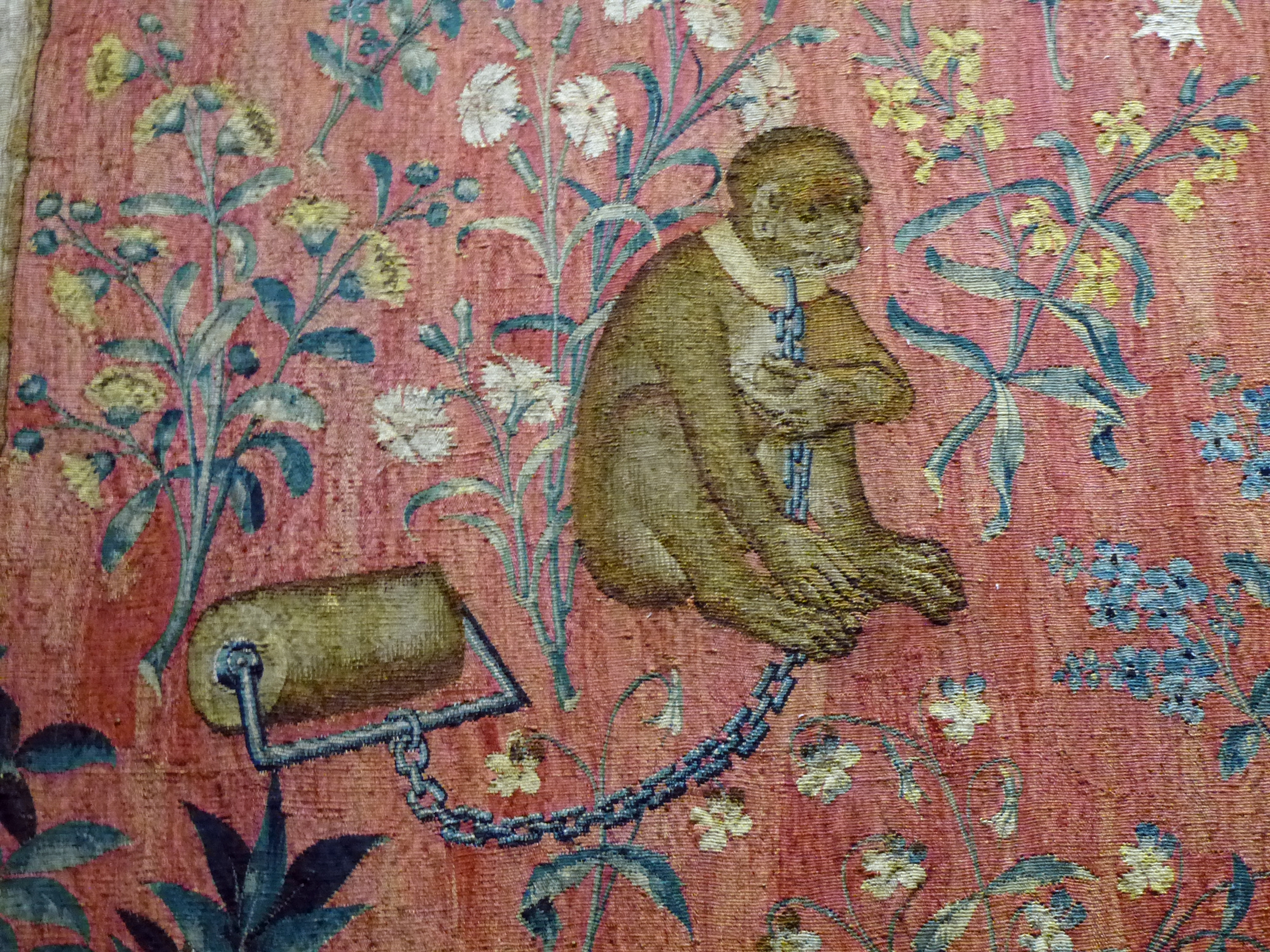 Monkey, detail of touch tapestry Singe